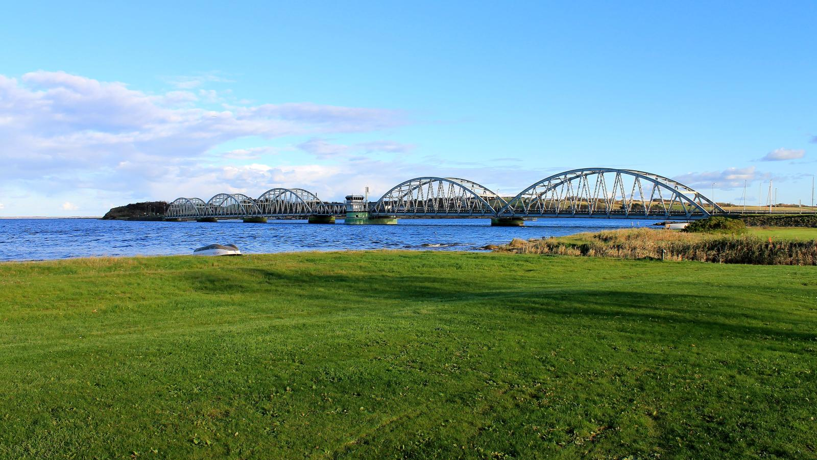 The Vilsund Bridge with the island of Mors in the background in Denmark